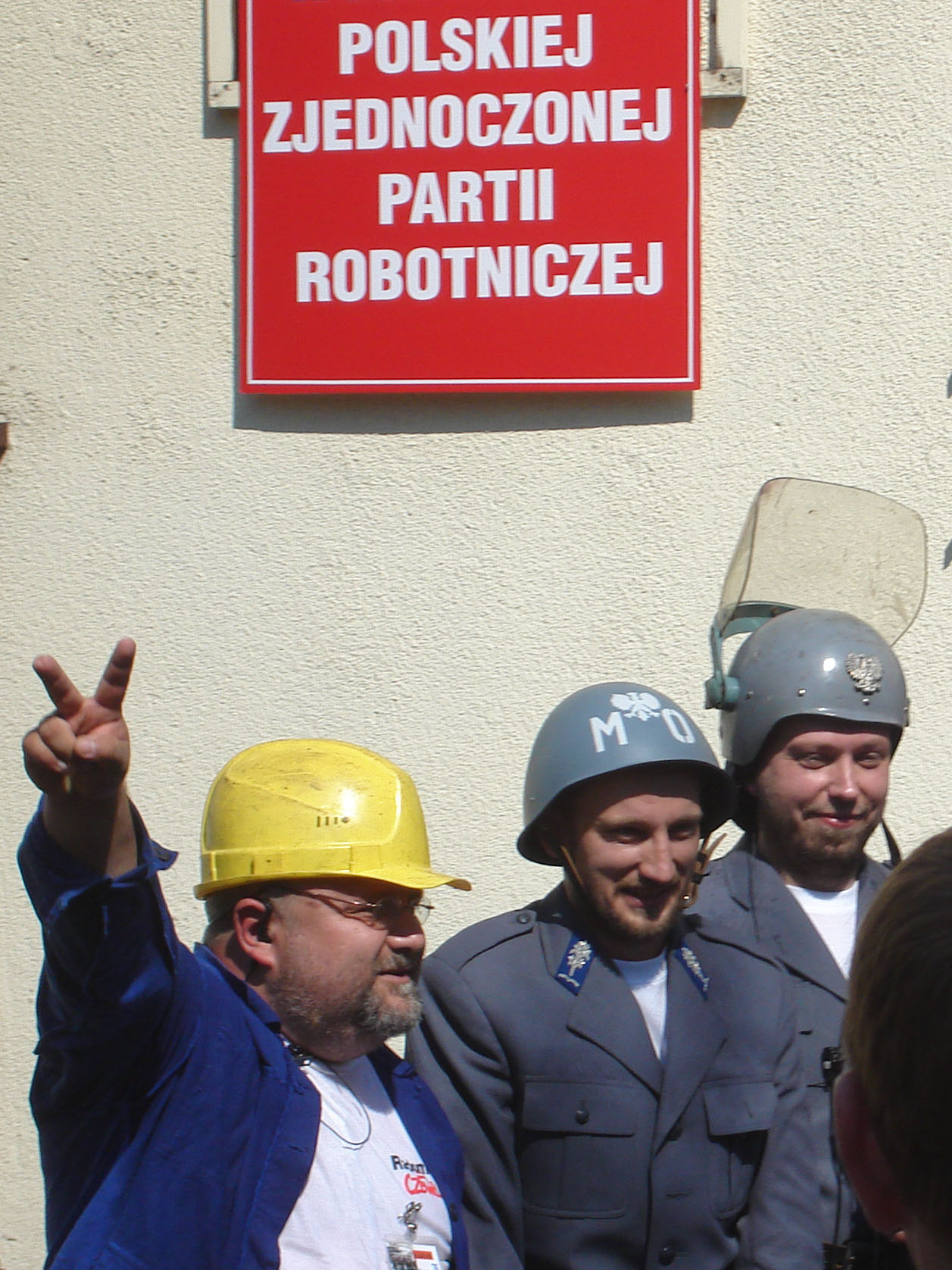 Staging of Radom political protests of 1976. Re-enactors of Citizen Militia (Milicja Obywatelska), a former Polish Police of the communist period.